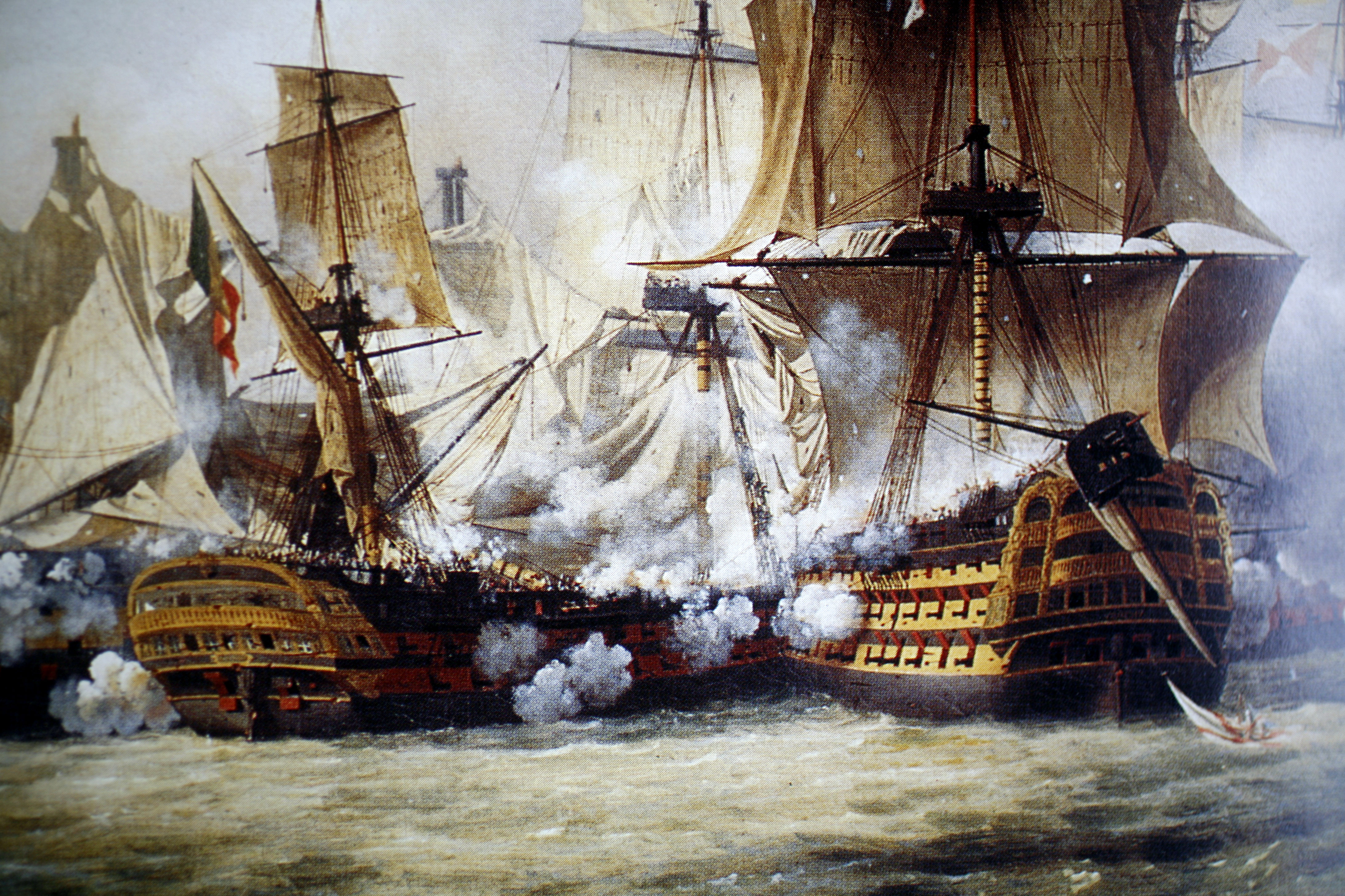 Scene of the Battle of Trafalgar